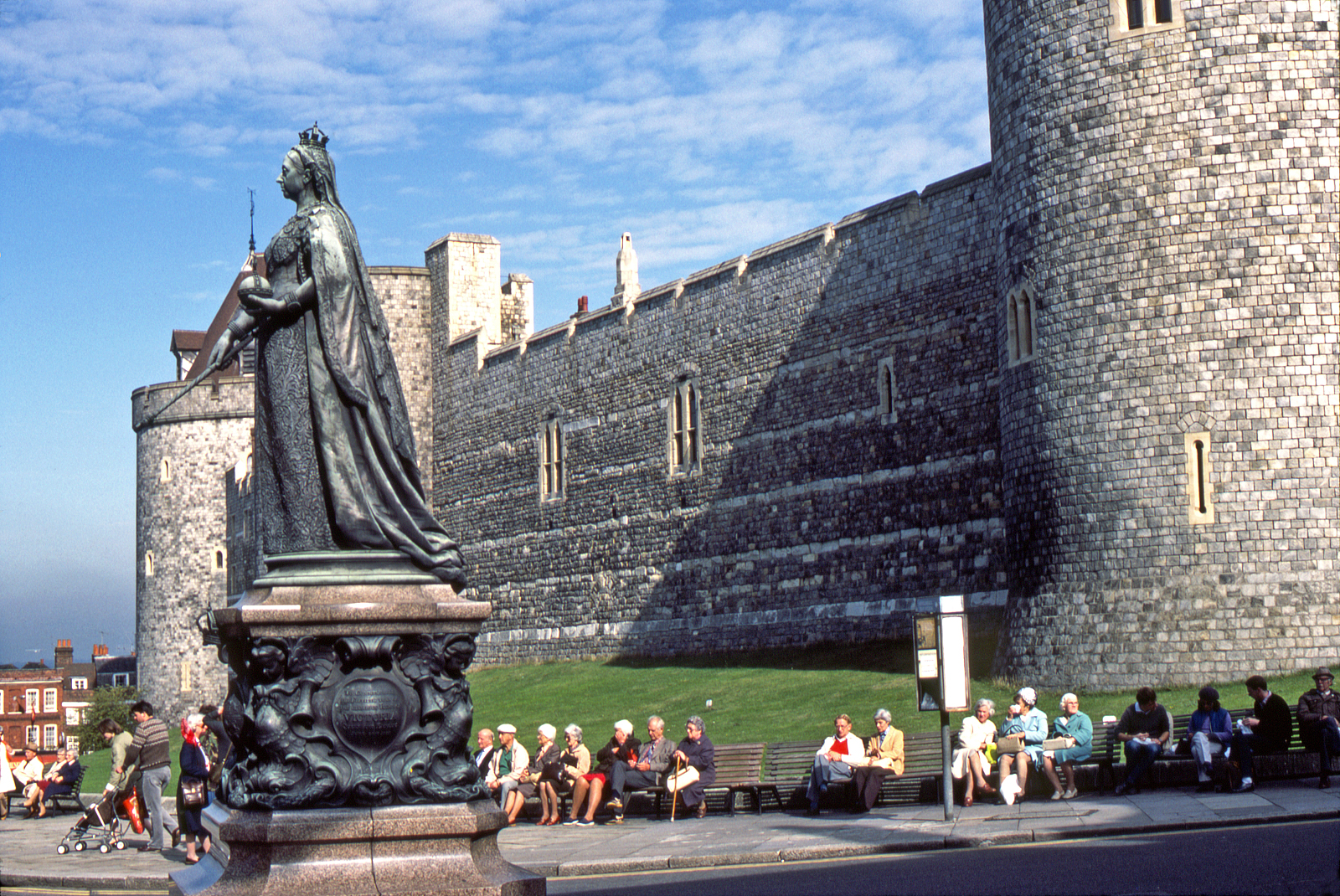 Queen Victoria Statue at Windsor Castle, Berkshire, England.